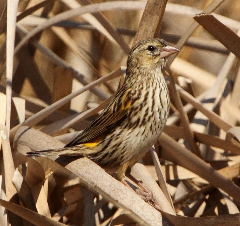 Female yellow bishop Euplectes capensis; Mpofana road, KwaZulu-Natal, South Africa.